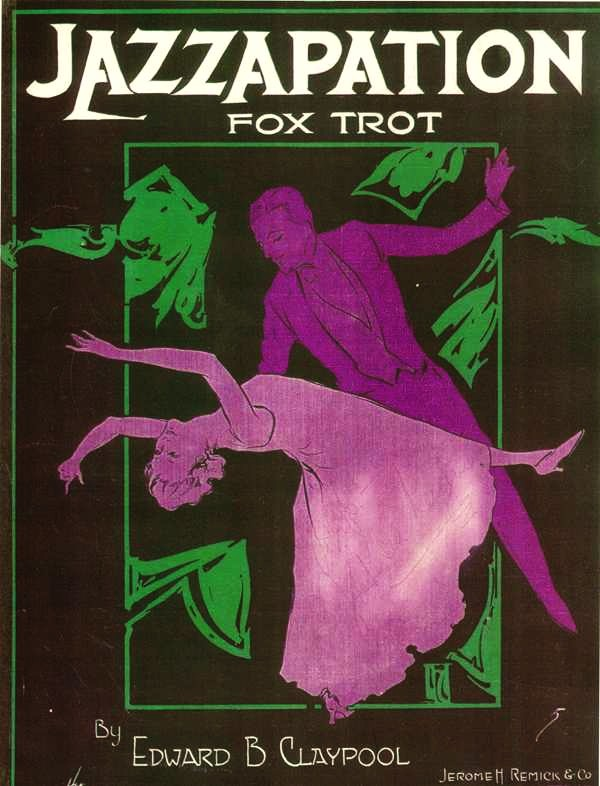 Jazzapation, 1915